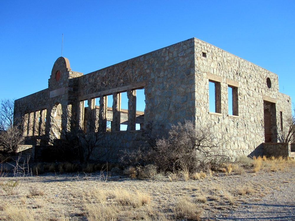 I took this picture from a public street